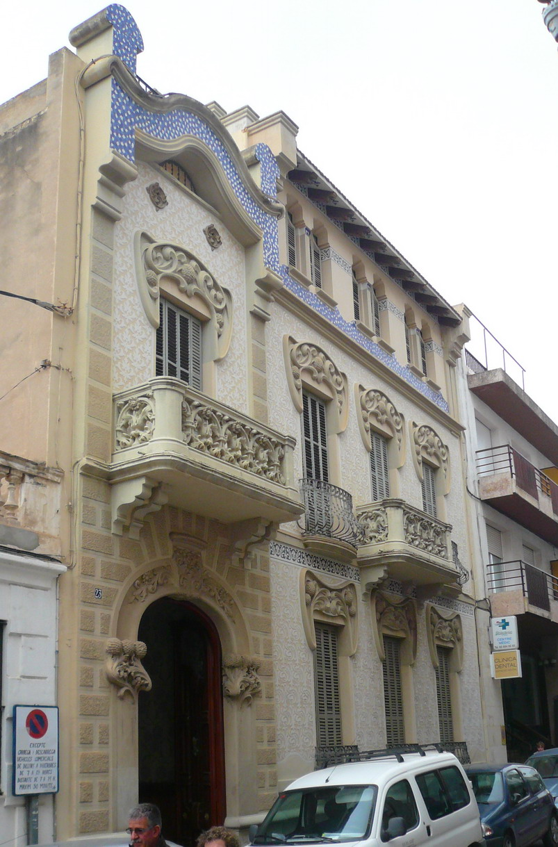 Casa Pere Carreras i Robert in Sitges, Catalonia